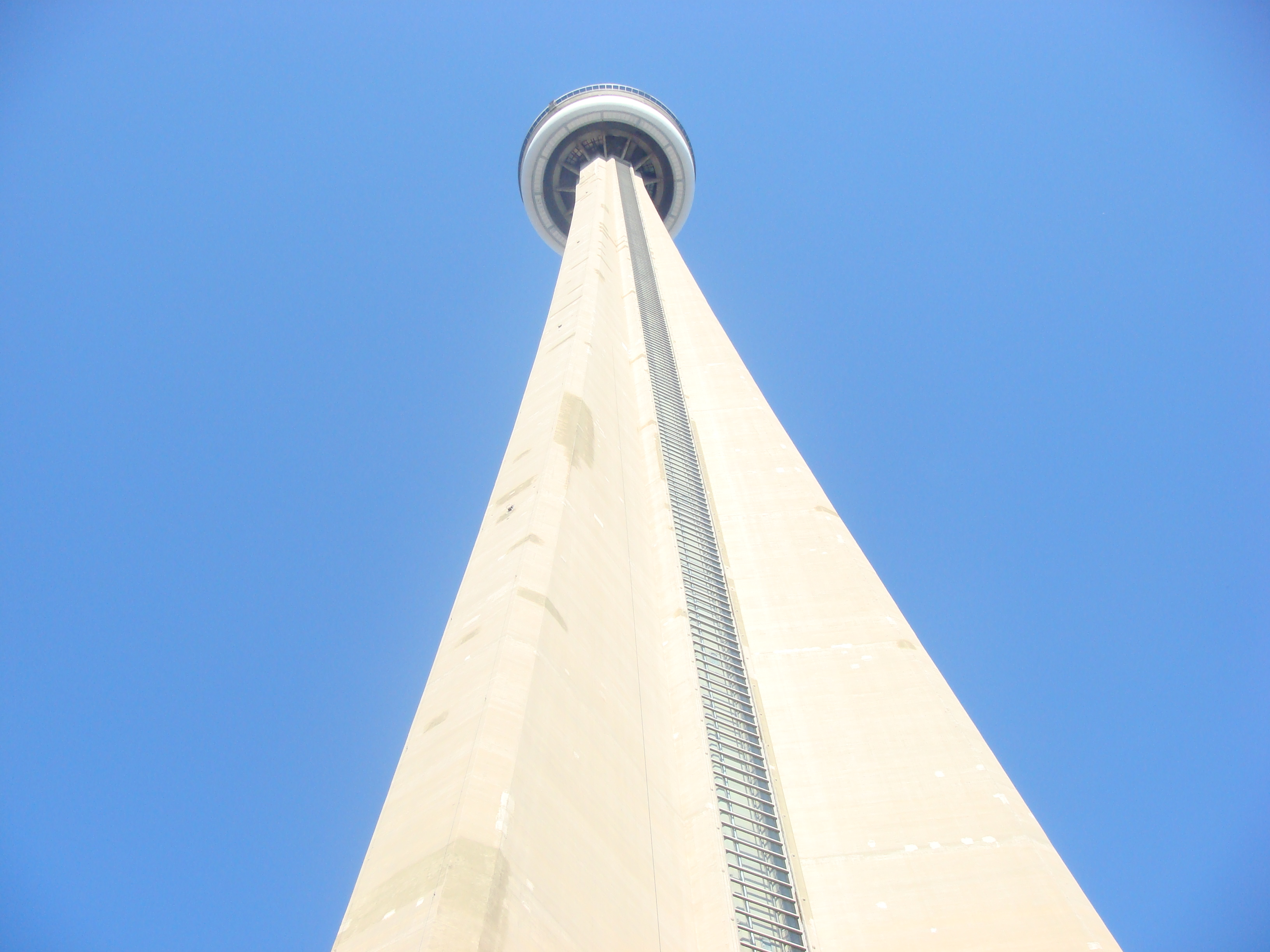 Toronto City (CN Tower) Canada